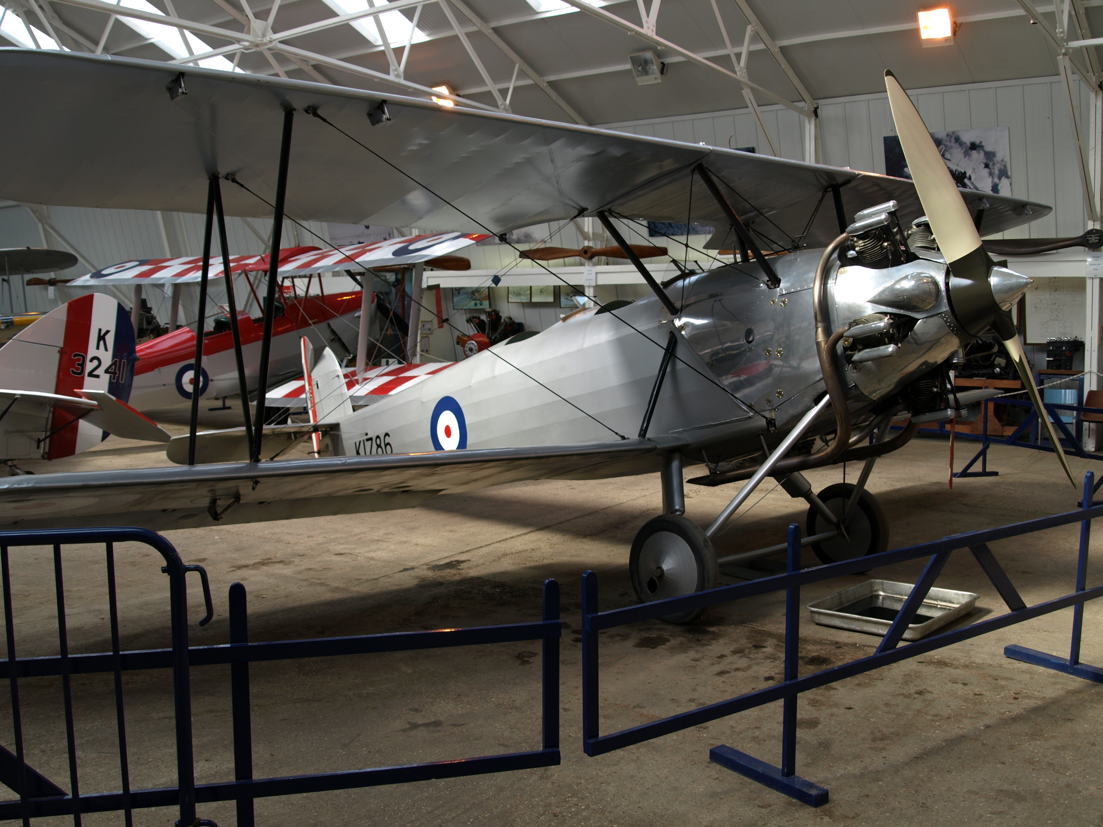 Hawker Tomtit historic aircraft